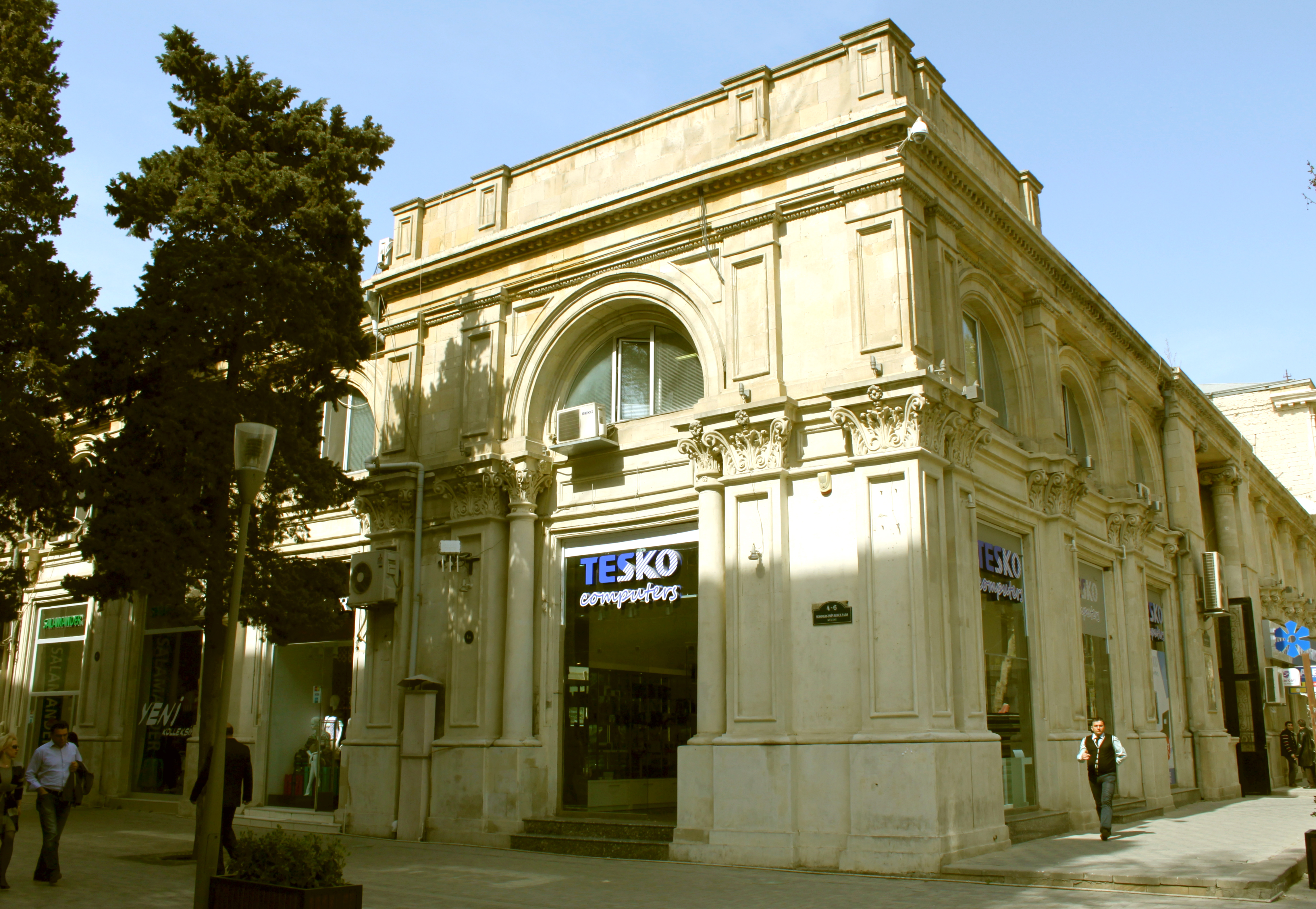 Tağıyev pasajı